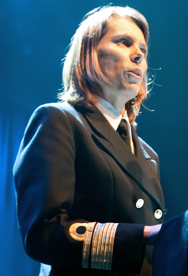 Louise Kathrine Dedichen Bastviken, the first female admiral in Norway